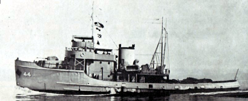 The Philippine Navy's resuce tug, the RPS Ifugao (AQ-44) circa 1953.